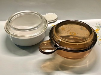 Corning Ware and Visions Grab-its. These are 15 ounce versions in opaque and transparent Pyroceram.